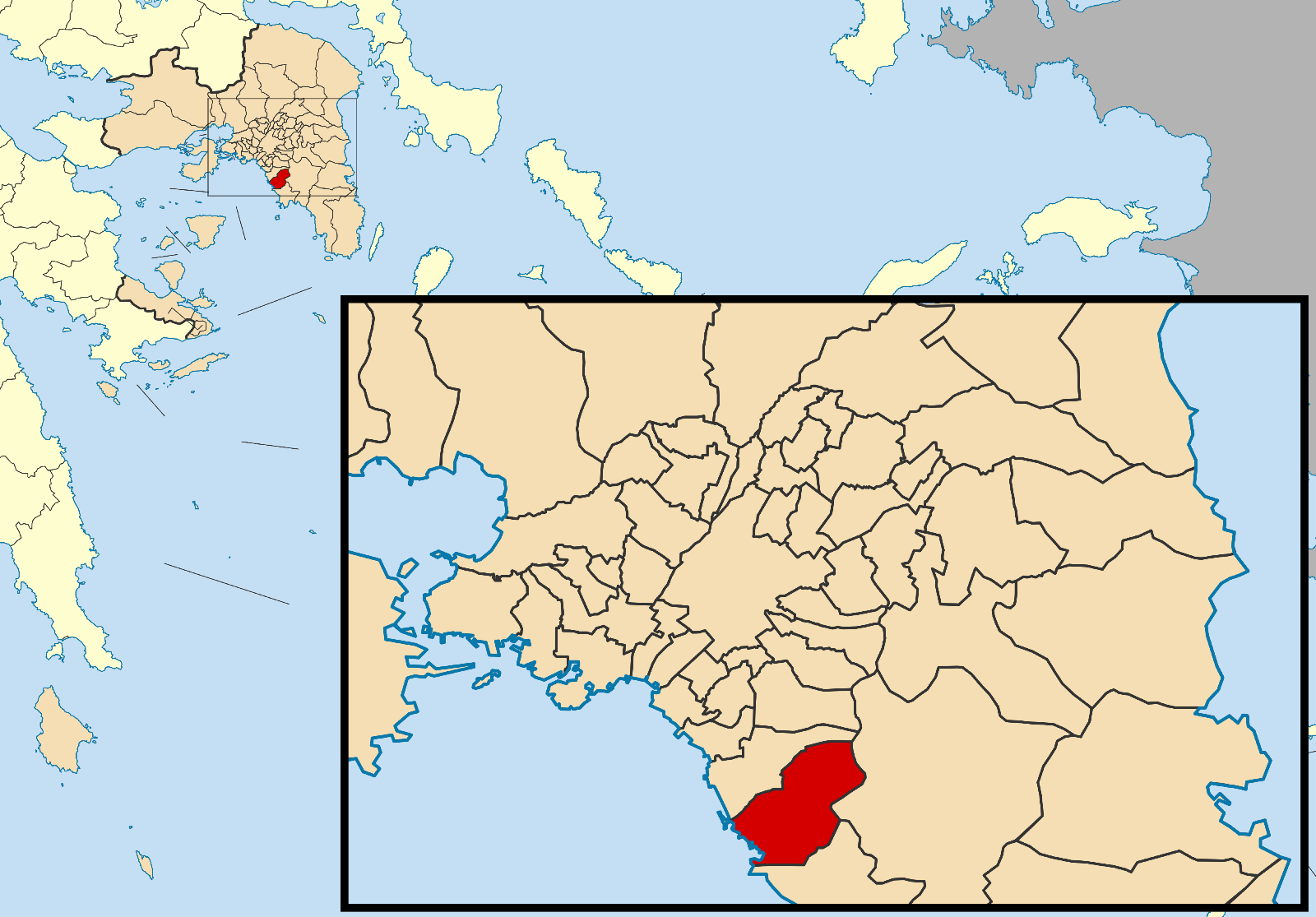 Locator map for Glyfada municipality in Greek region Attica (2011)